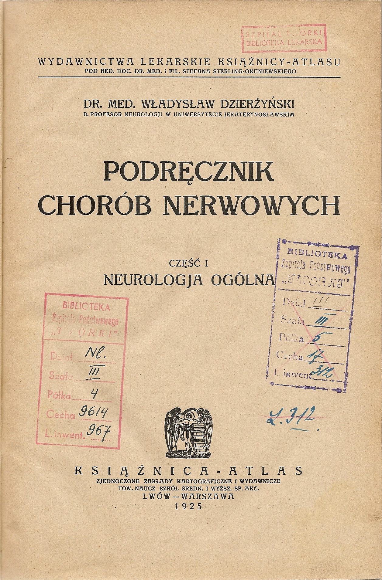 Title page of the handbook of neurology by W. Dzierżyński